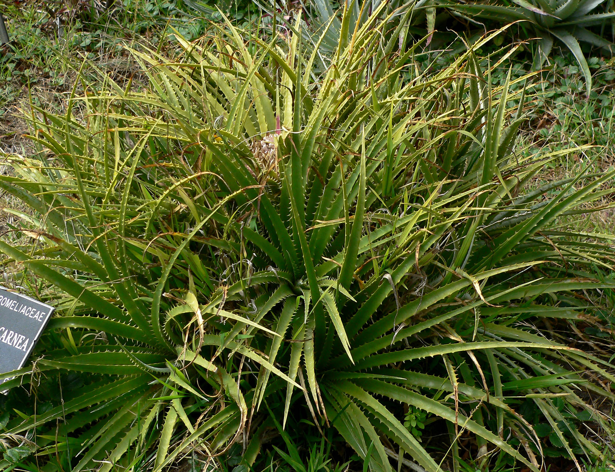 Photo of Ochagavia carnea at the San Francisco Botanical Garden